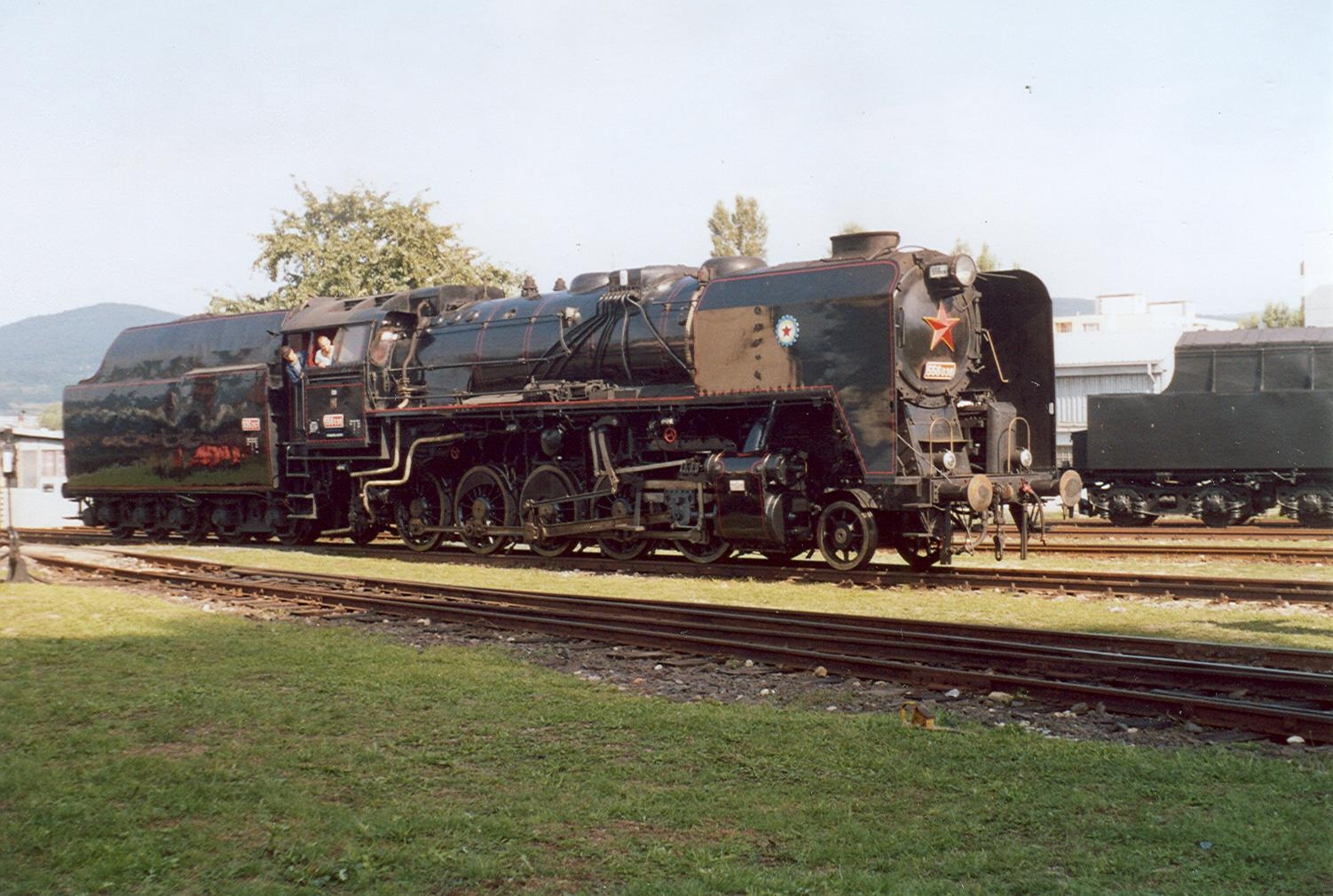 Locomotive class 556.036 in Bratislava Vychod depot